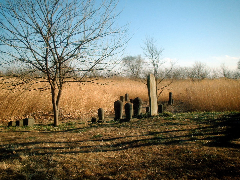 Yanaka village was executive abolished town at 1906. In Tochigi prefecture, Japan.